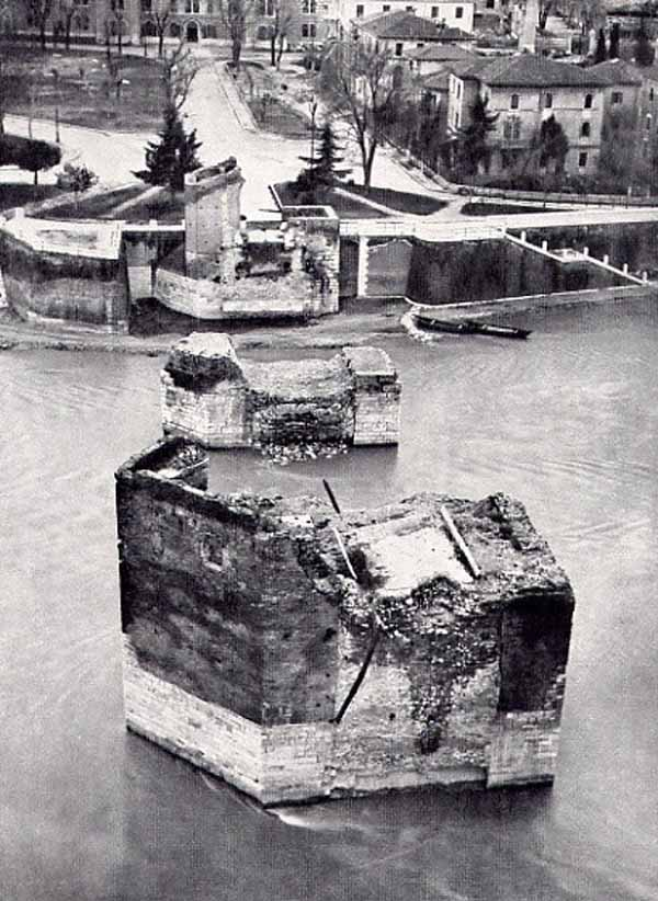 Verona: Ponte Scaligero in 1945